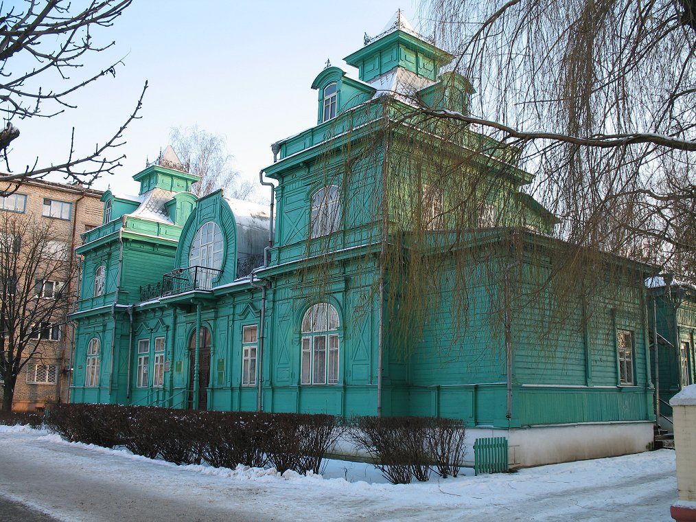 The old library building in Bobrujsk, Belarus.